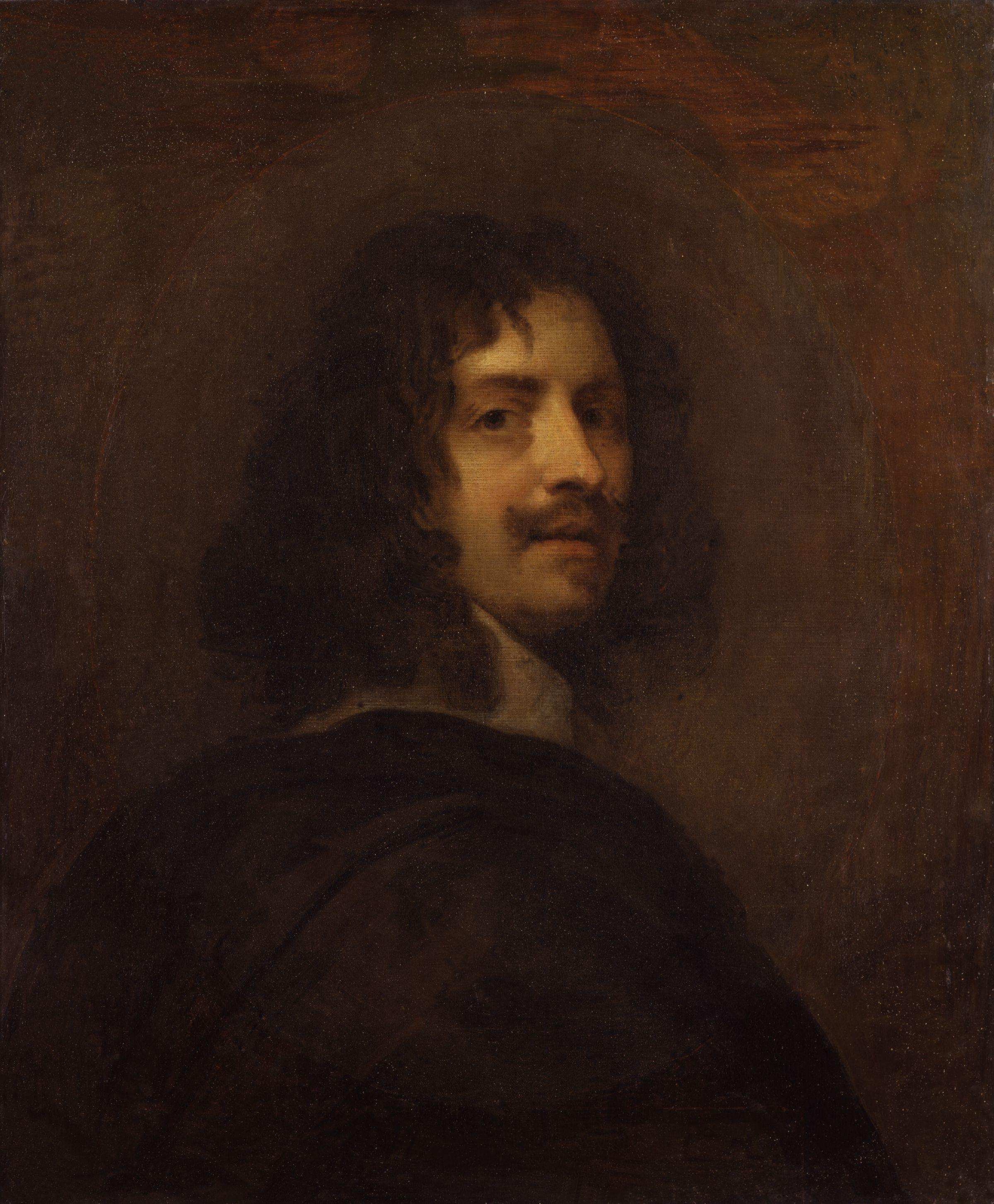 William Dobson, by William Dobson (died 1646). All images in this batch have been confirmed as author died before 1939 according to the official death date listed by the NPG.